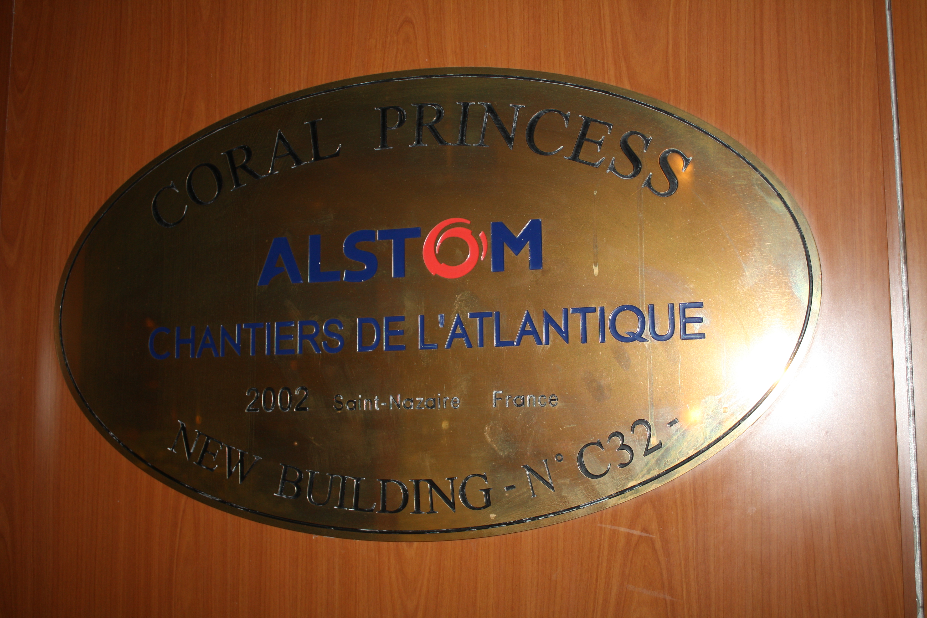 Coral Princess plaque